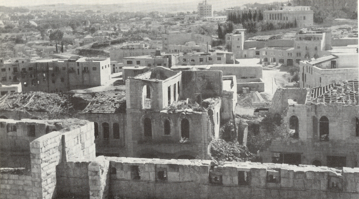 Jerusalem view from city wall 1950s. King David Hotel top right. Photo caption:"Jerusalem, den tudelade staden: i Ingenmansland mellan de bada stadshalfterna kan man alltjamt se spar av tidigare strider."